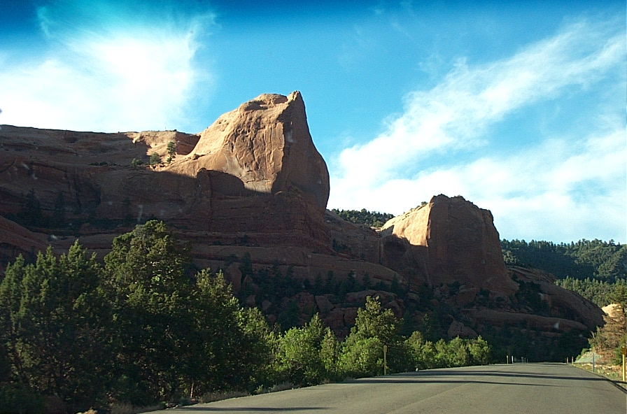 Buffalo pass on Indian Route 13, Lukachukai Mountains, Arizona Uploaded on March 10, 2006 by Mighty Free (generic)